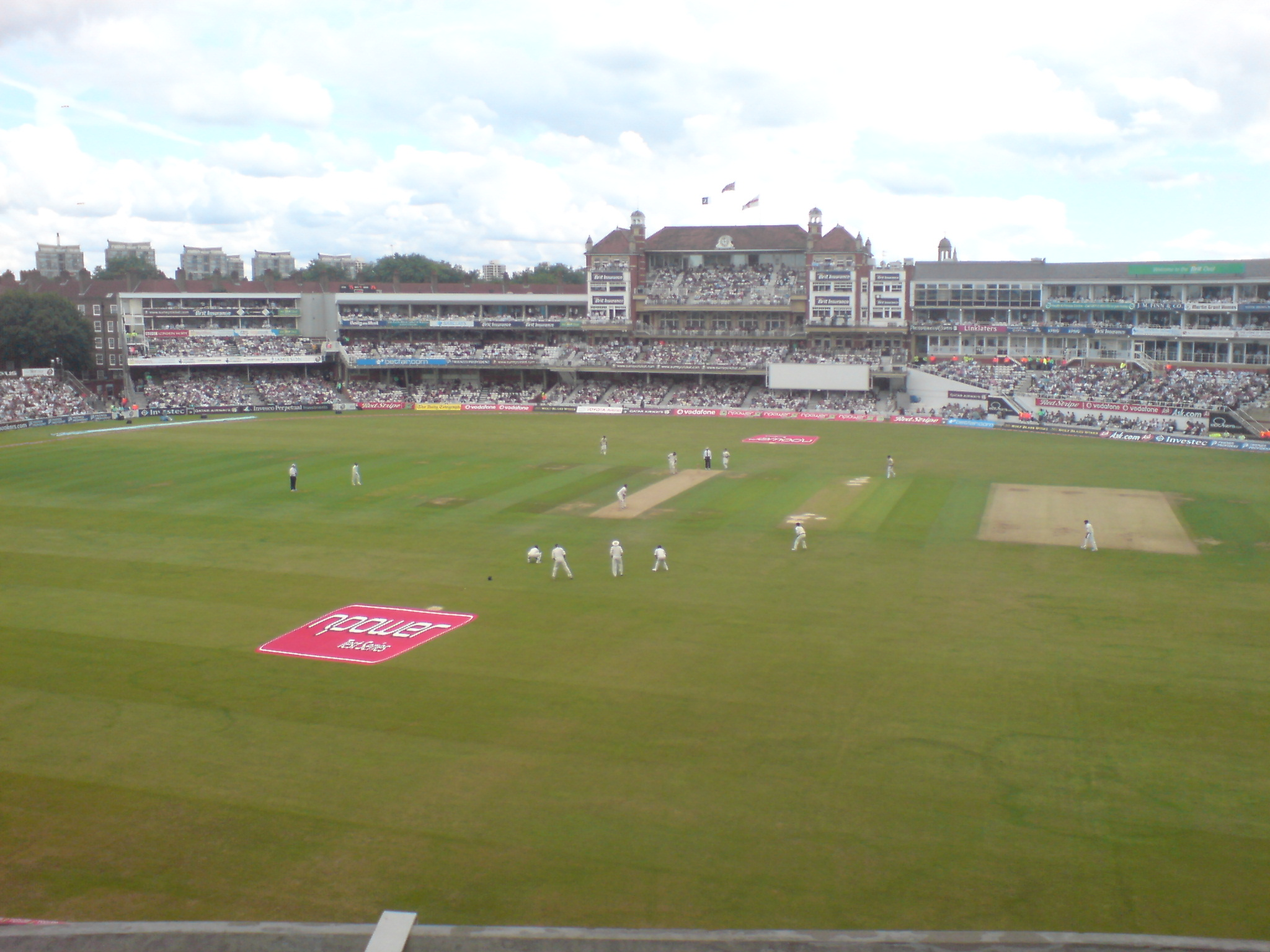 The controversial Test between England and Pakistan at the Oval in August 2006.